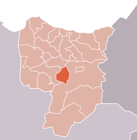 Midar, driouch province, morocco2